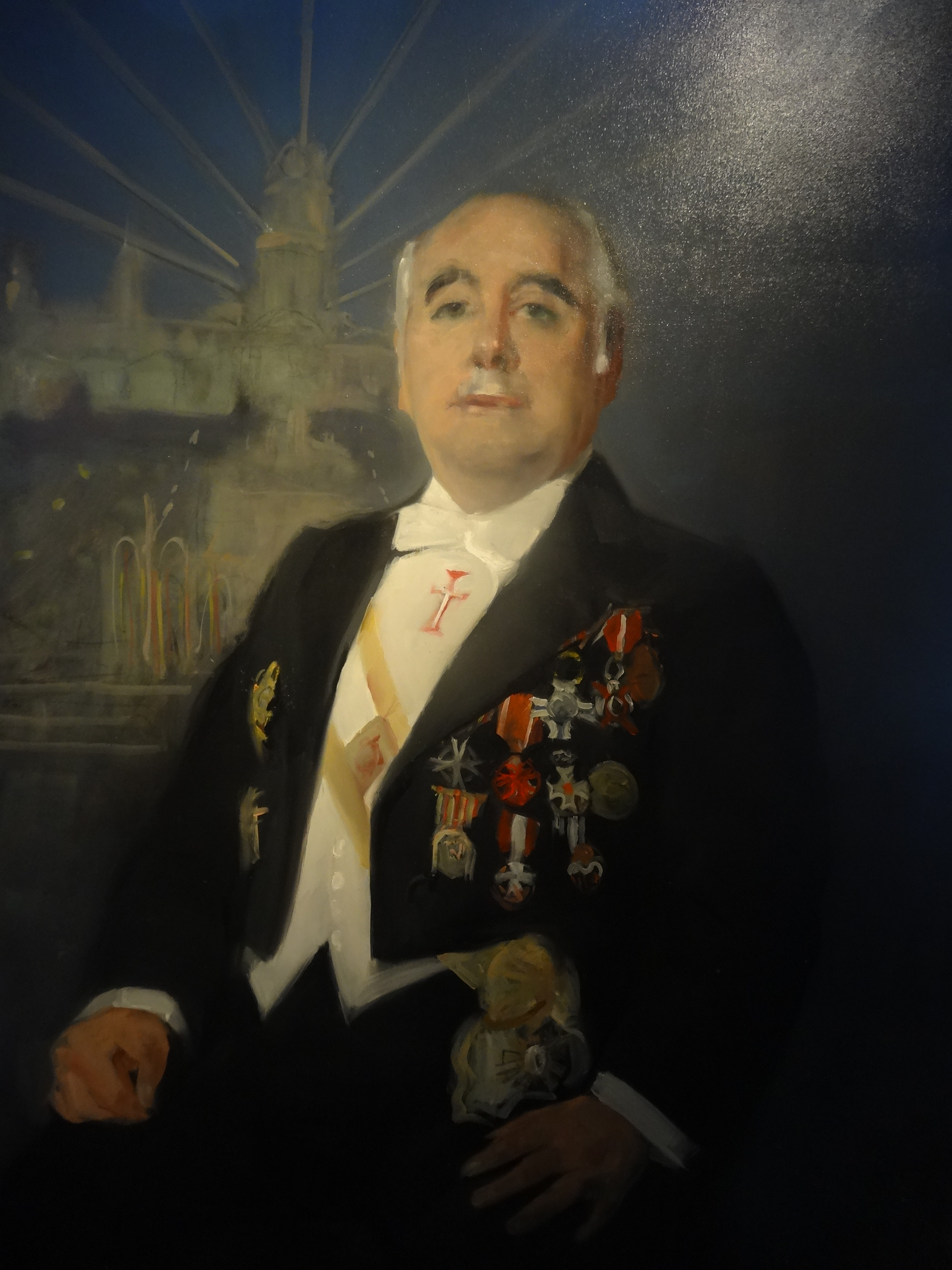 Museu d'Art de Cerdanyola, 2017. Exposició la Maleta de Carles Buïgas